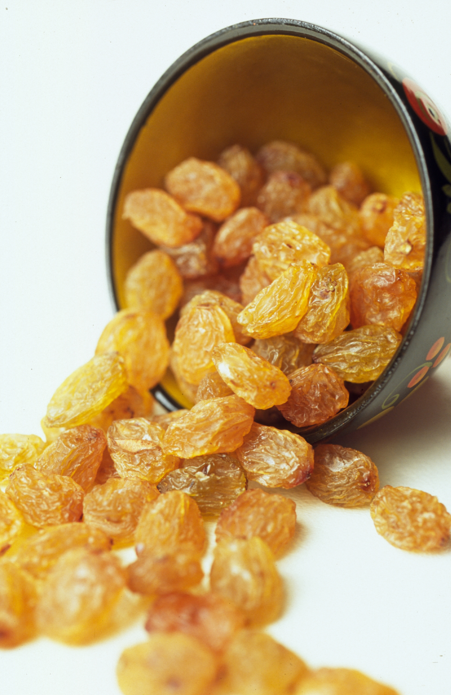 Sultana raisins